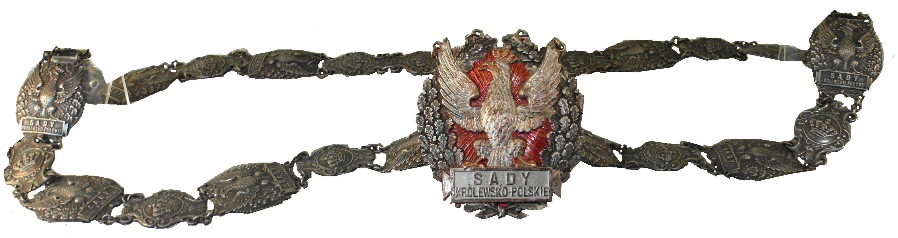 Chain of the Judge of Courts of Kingdom of Poland 1916-1918